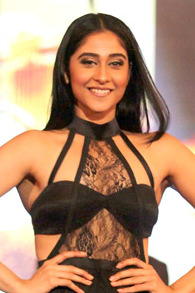 Regina Cassandra grace the launch of Aankhen 2 on August 18, 2016